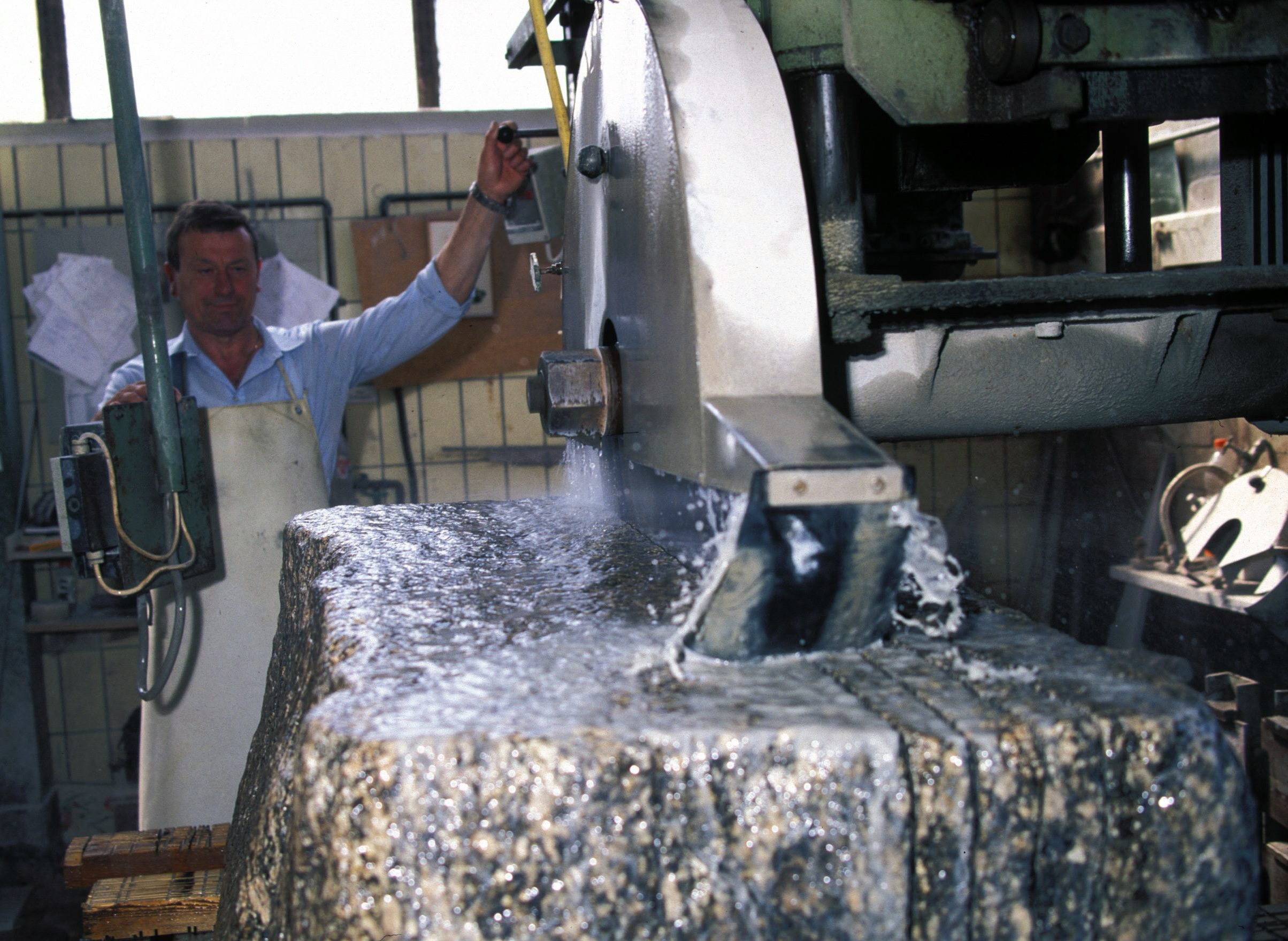 Stone cutter with diamond saw. Cornerstone of new building of Alfred Wegener Institute. Rock is gneiss from Kottas Mountains, Dronning Maud Land, Antarctica